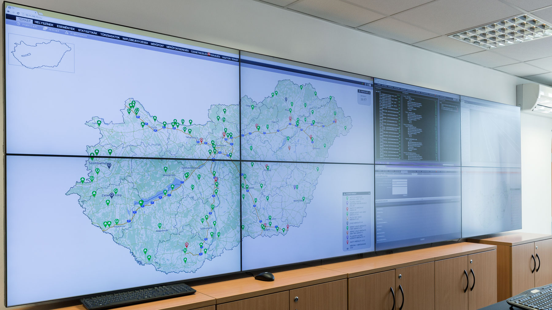 ARH GDS traffic management network display wall. ITS graphical user interface displaying the Hungarian highway network and its data points.